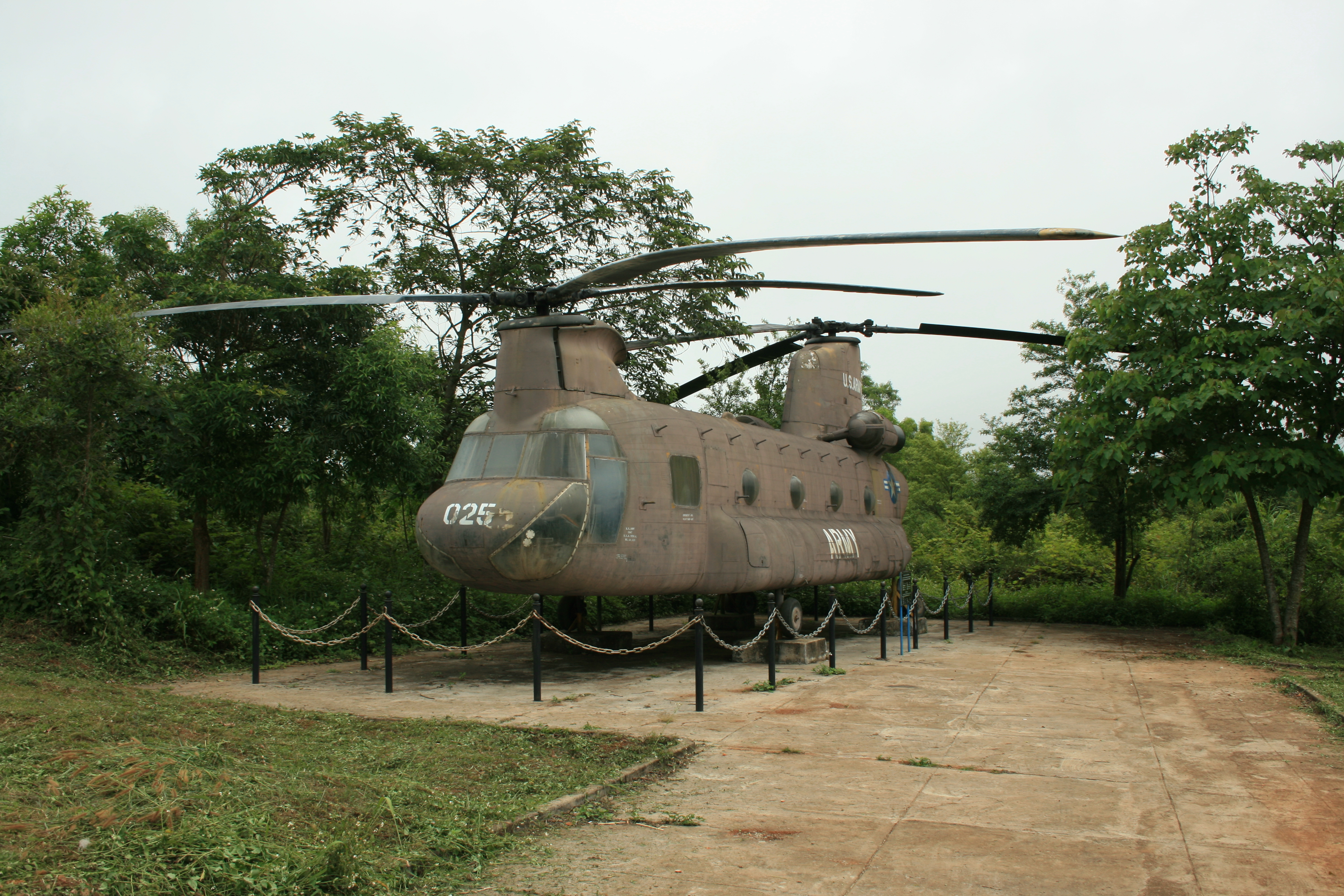 A Boeing-Vertol CH-47A Chinook helicopter at Khe Sanh combat base. This is probably s/n 65-8025 which was transferred to the (South) Vietnamese Air Force in November 1972 and that was captured by North Vietnam in 1975.